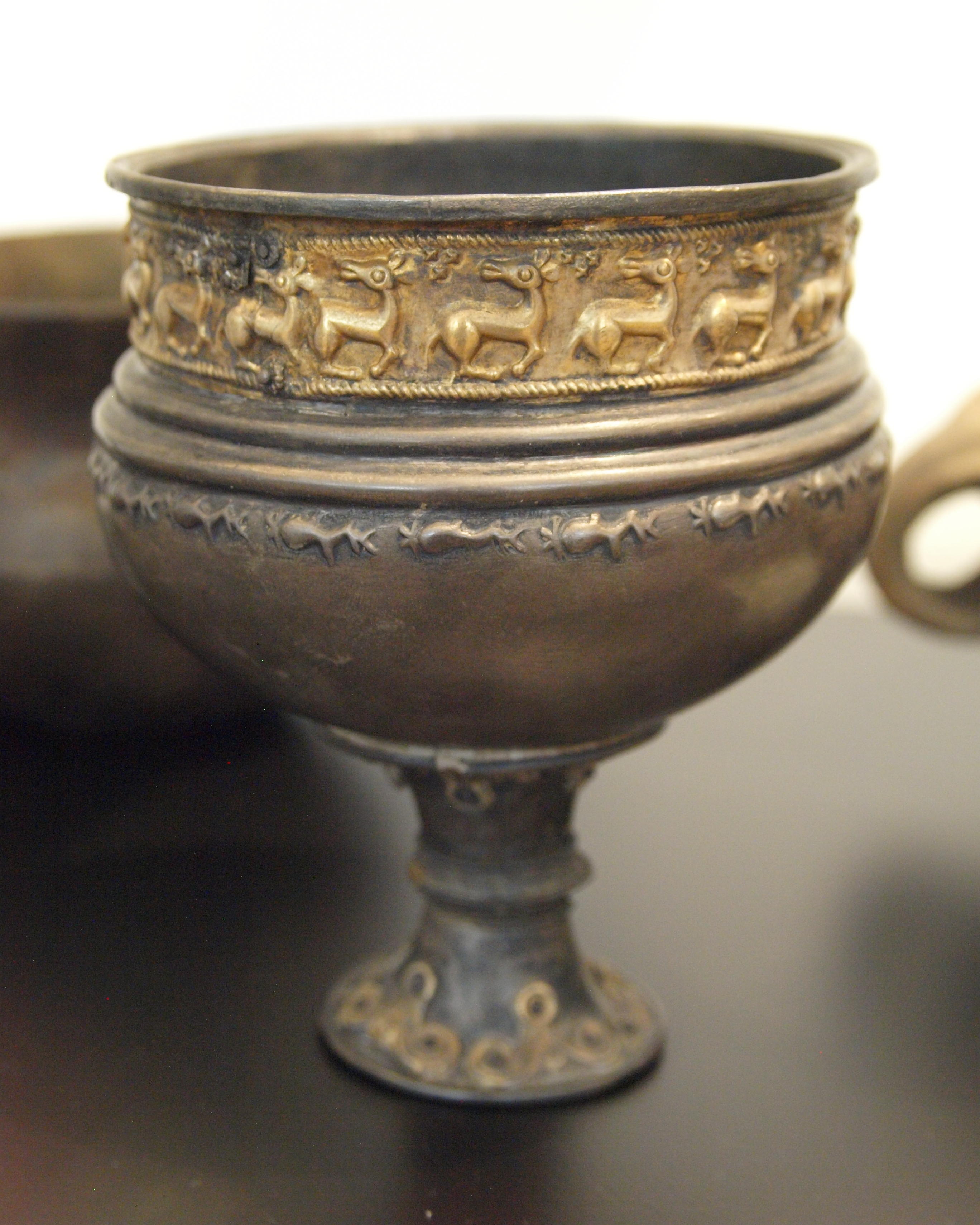 Nordrup Silver Goblet (partly reconsctruced), found in a grave of a noble woman, near Nordrup, Midtsjælland, Denmark. Dating to 1st half ov 3rd Century AD, north European Iron Age. Photographed at